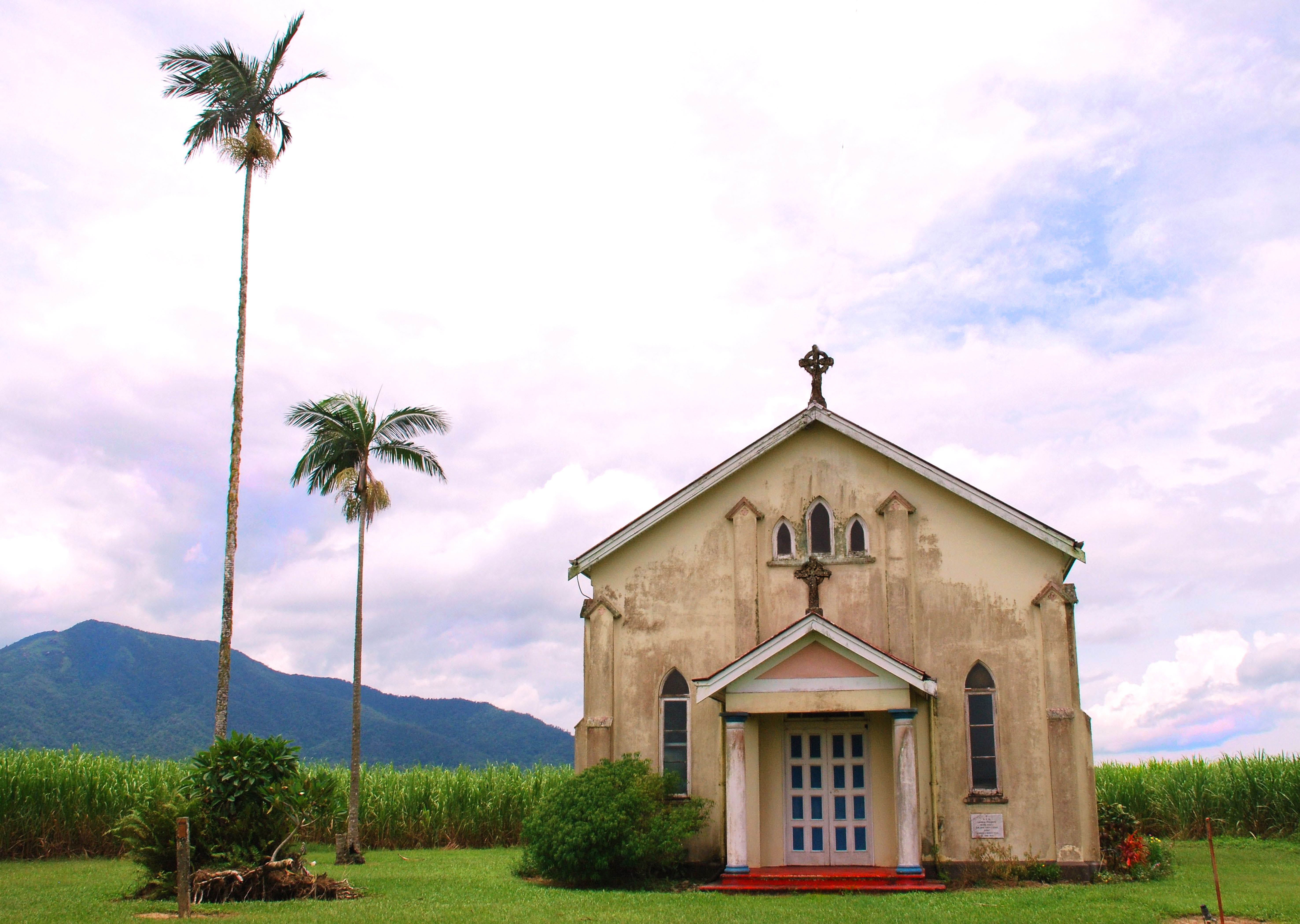 church surounded by canefields and palmtrees in Lower Tully